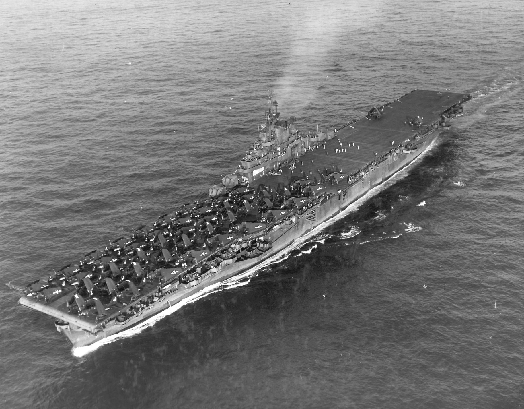 The U.S. Navy aircraft carrier USS Wasp (CV-18) at sea in the Western Pacific on 6 August 1945. Note the scoreboard painted on the carrier's island. On deck are various aircraft of Carrier Air Group 86 (CVG-86).